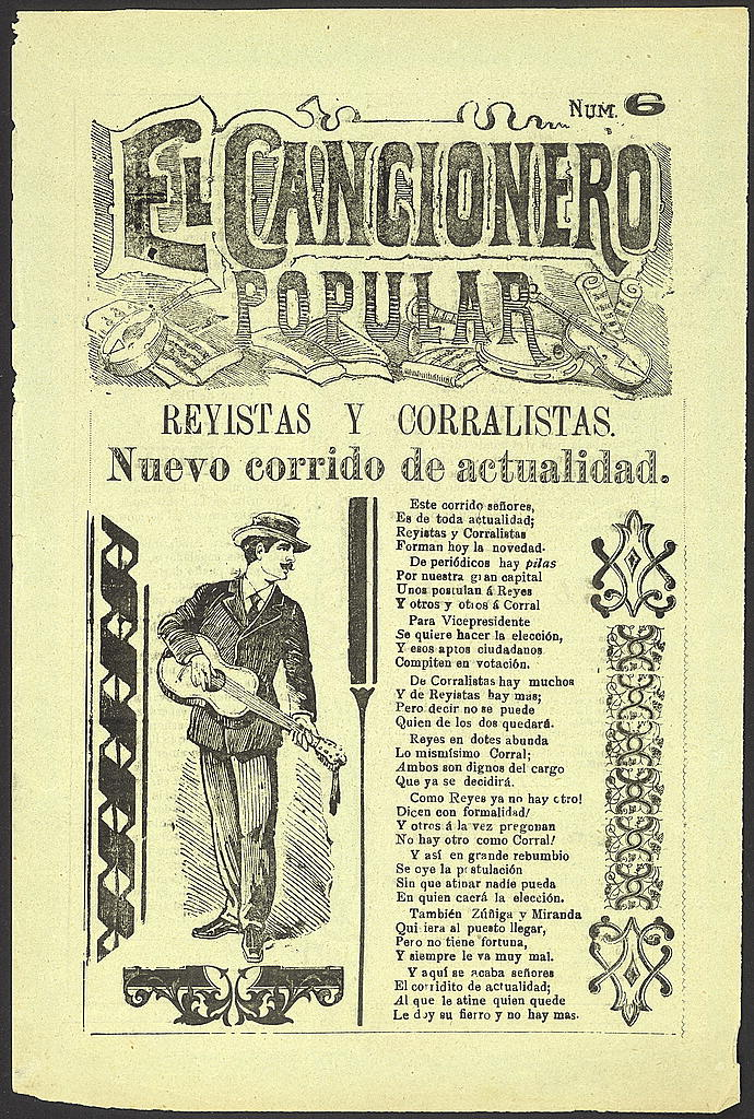 Broadside shows full-length figure of a man playing guitar, as well as masthead illustration. The script of the ballad centers around the heated campaign for a suppossedly free and democratic presidential and vice-presidential election in 1910. The players involved include General Bernardo Reyes and Ramón Corral (for the vice-presidency) and Porfirio Díaz and Francisco I. Madero (for the presidency). The verso of this broadsheet contains five short love poems.